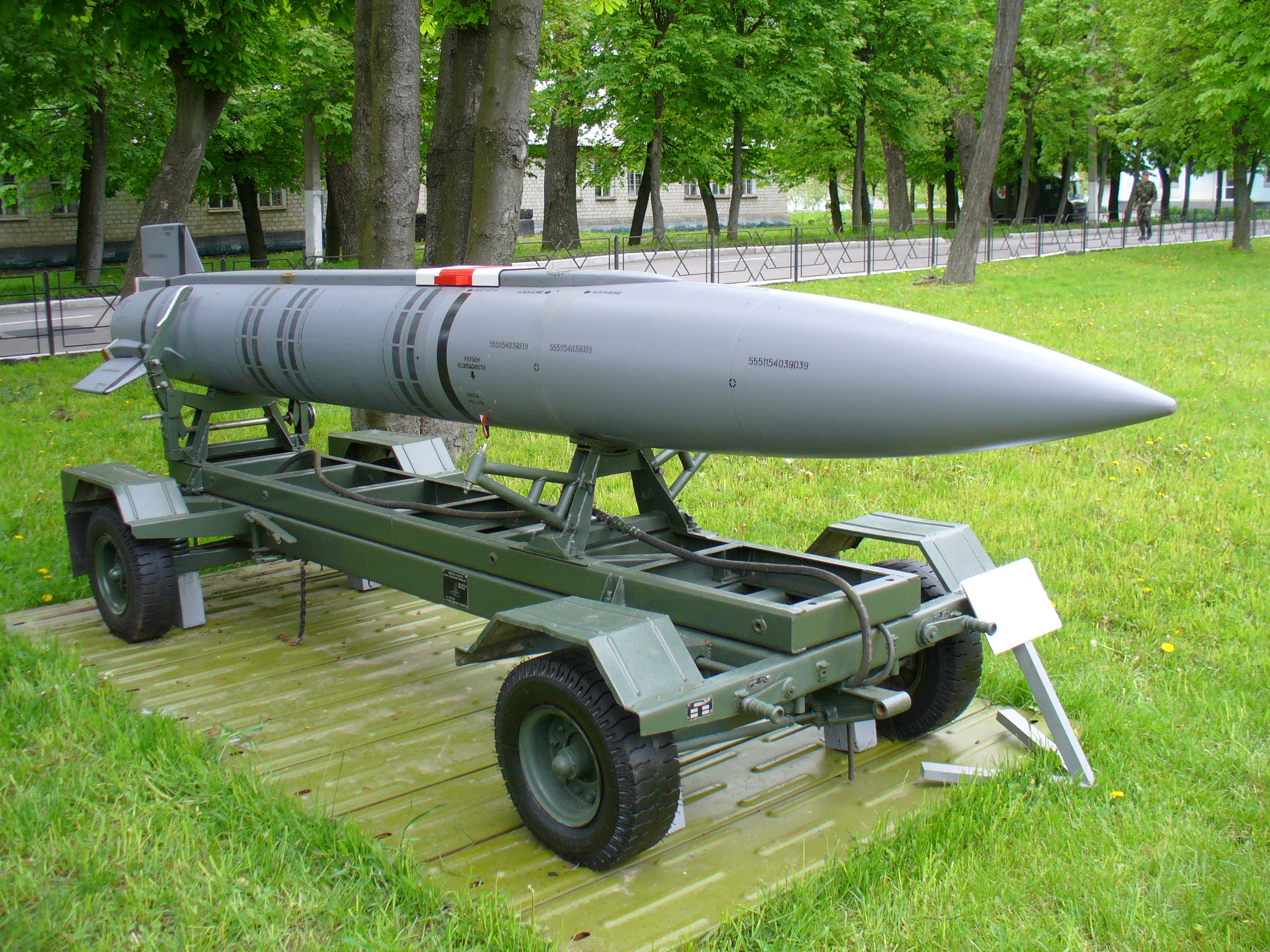 AS-16 Kickback Raduga Kh-15 in the museum of Ukrainian Air Force, Vinnytsia.